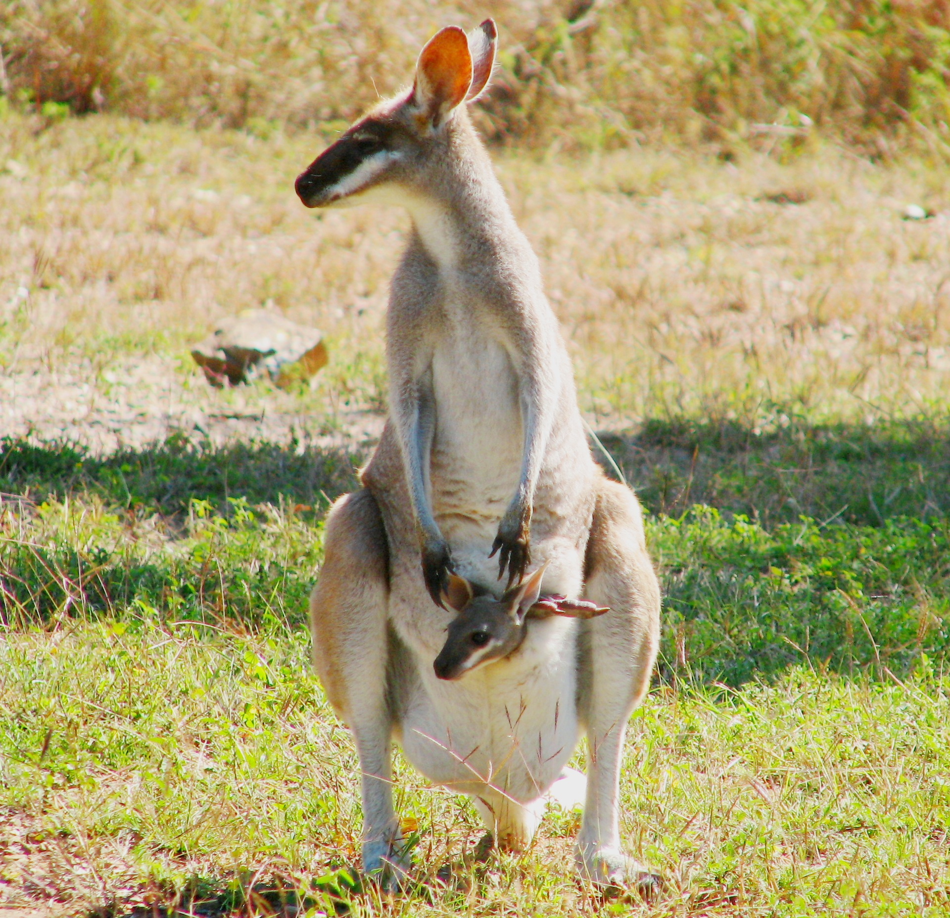 Pretty-face or Whiptail Wallaby found at Lake Awoonga, near Gladstone, Central Queensland, Australia